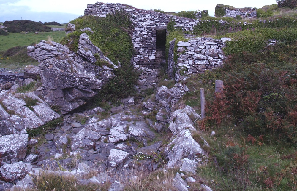 Castle Haven, Dumfries and Galloway, Scotland. Prehistoric Dun